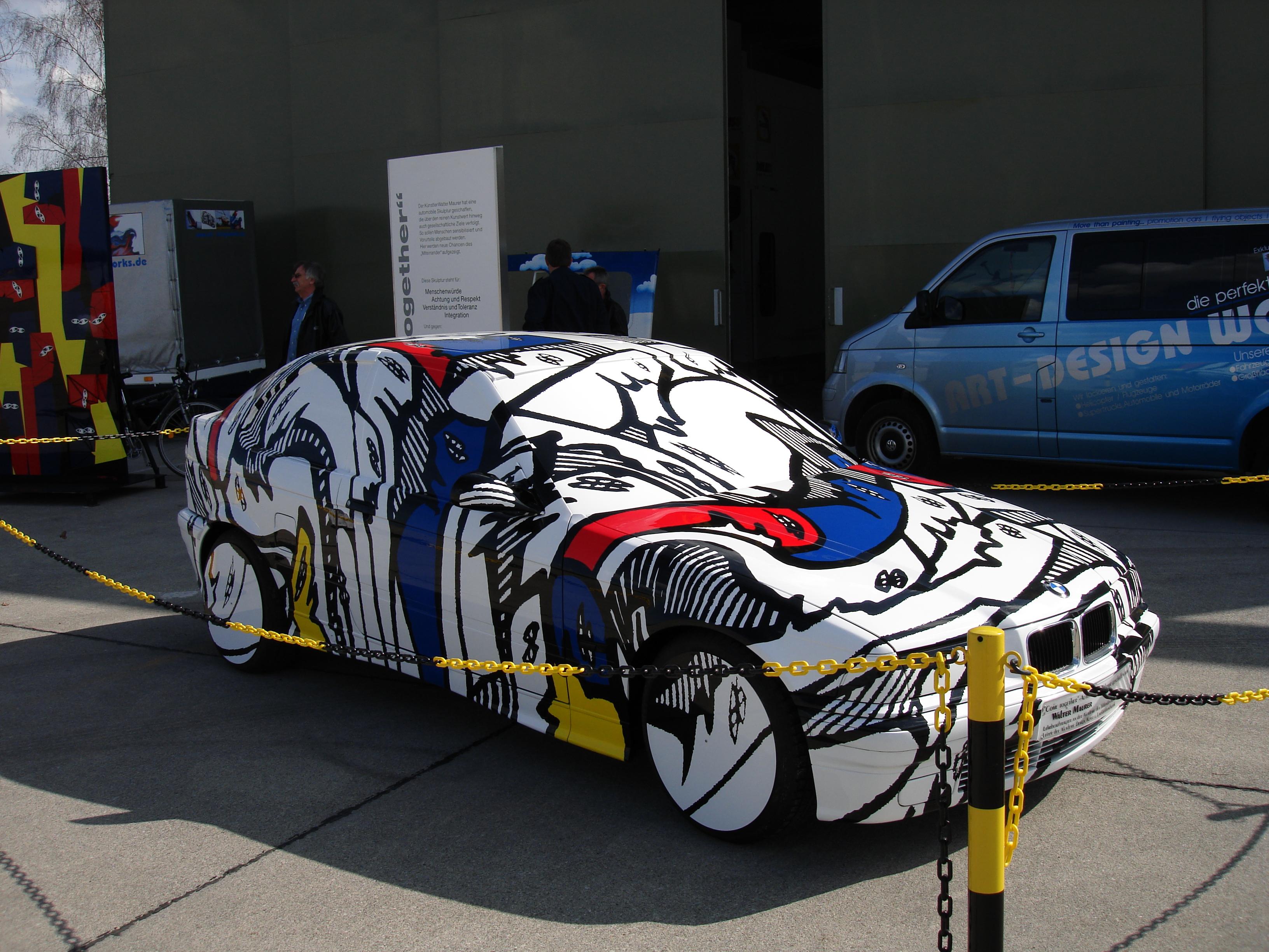 Walter Maurer